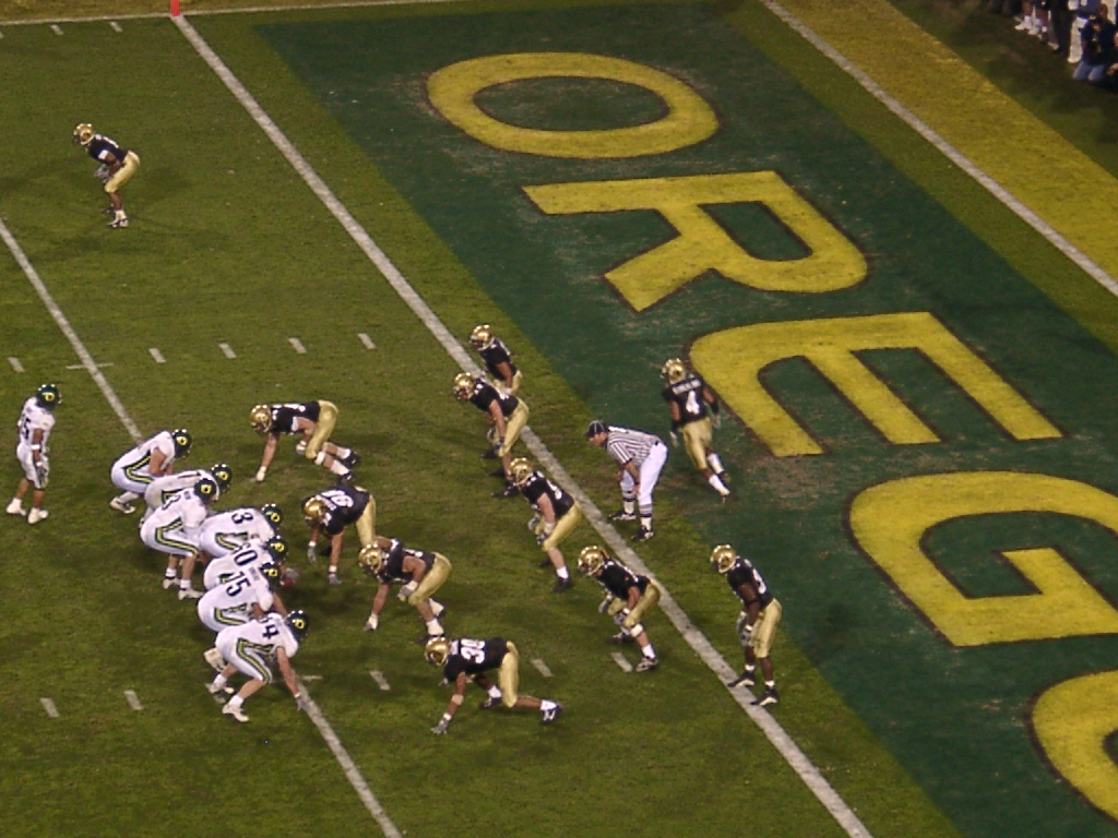 The #2 ranked Oregon Ducks and the #3 ranked Colorado Buffaloes in the 2002 Fiesta Bowl on January 1st, 2002. The Oregon Ducks would win the game 68-10. Oregon quarterback Joey Harrington lines up under center on the Buffaloes' four yard line in the fourth quarter. The drive would end in a four yard touchdown pass to Oregon tight end Justin Peelle.